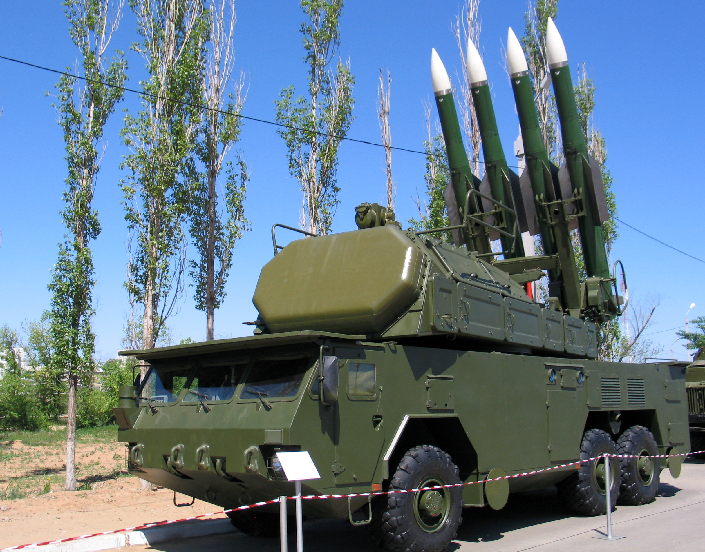 wheeled self-propelled launcher of "Buk-M2" surface-to-air missile system on the military exhibition on the 65 anniversary of Kapustin Yar missile range, Znamensk, Russia.